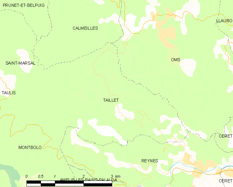 Map of French municipality